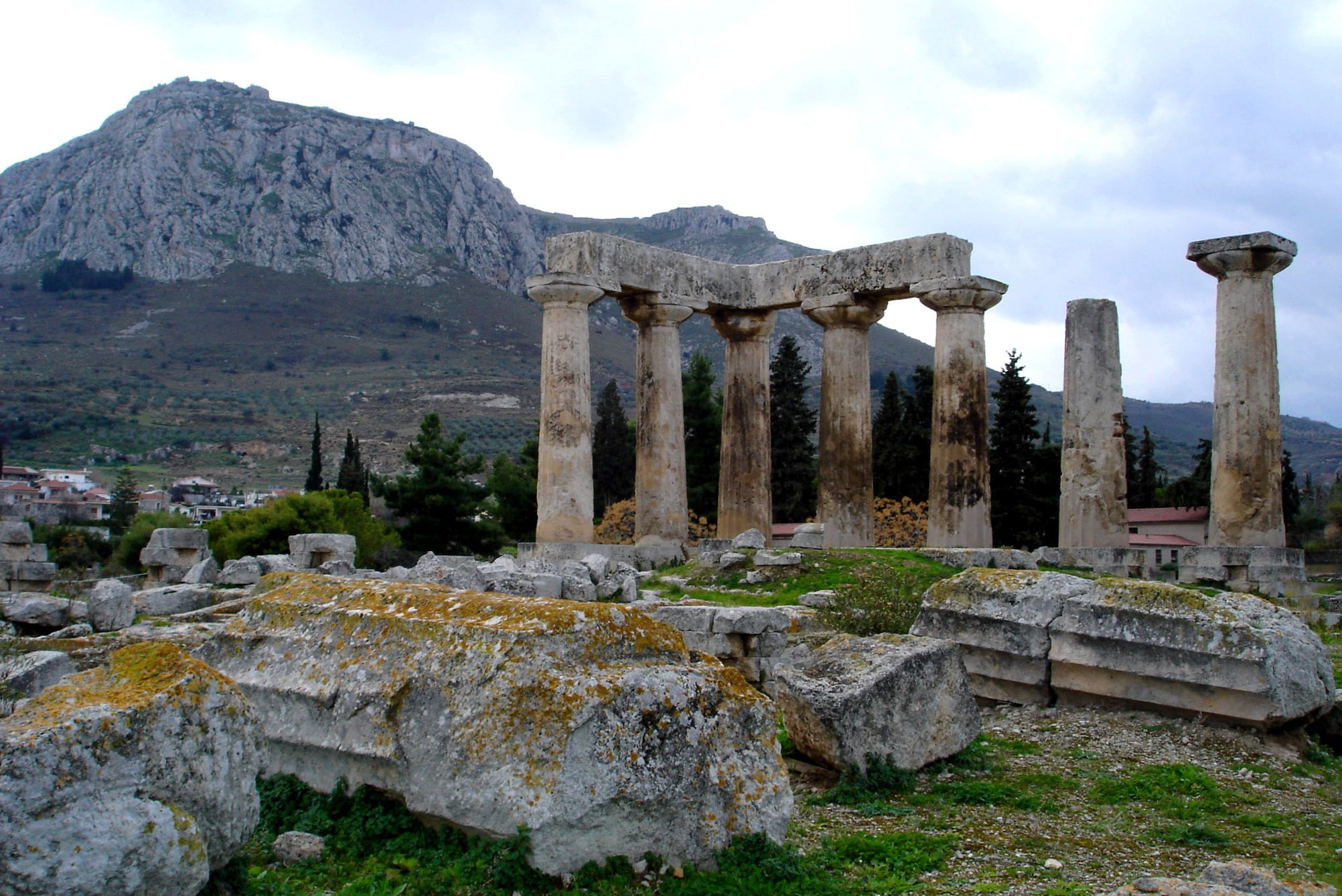 Temple Apollo, Corinth. Acrocorinth in the background. Although Corinth was destroyed by the Romans in 146 BC and later rebuilt, the Temple of Apollo is actually one of the original structures of the city, dated 540 BC by archaeologists who examined the masonry and other artifacts in its vicinity. For more information, see "Visit Ancient Greece", a guide for tourists.